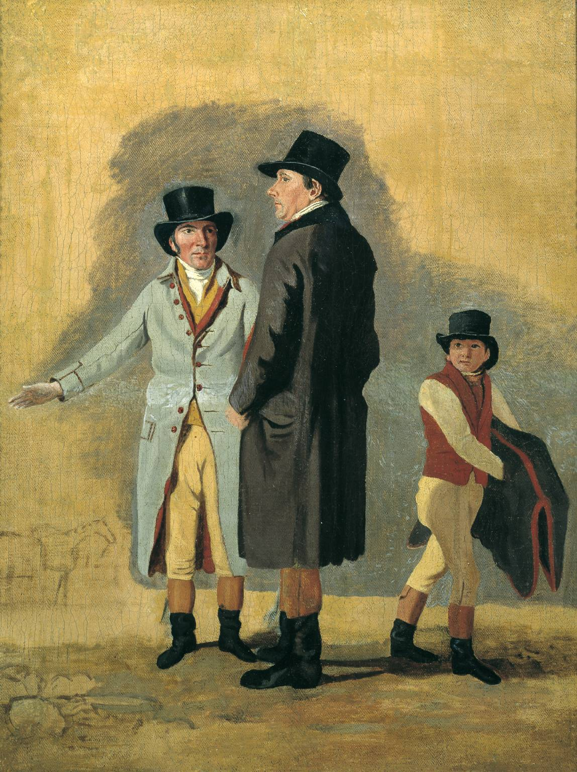 Sir Charles Bunbury (center) with his horse trainer Cox and a stable boy in a circa 1801 study painting by Benjamin Marshall. The work was reportedly a preliminary painting for the later finished work "Surprise and Eleanor." Eleanor was Bunbury's Thoroughbred racemare that won the 1801 Epsom Derby and Epsom Oaks, the first time that feat had been accomplished by a mare.